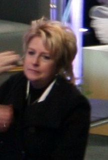 Joanne McLeod at the 2010 Trophée Eric Bompard